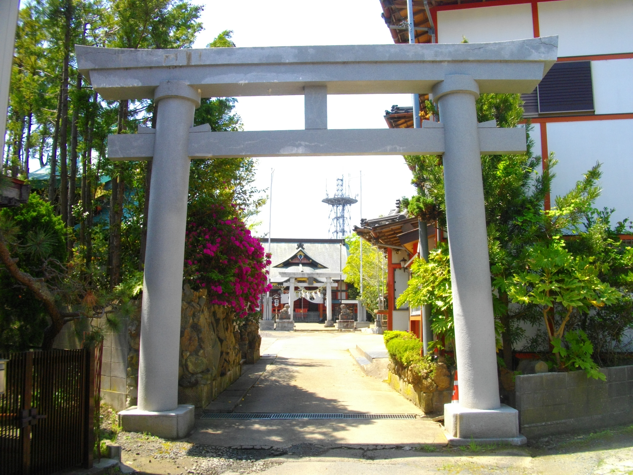 Hoko Jinja (Hokota)